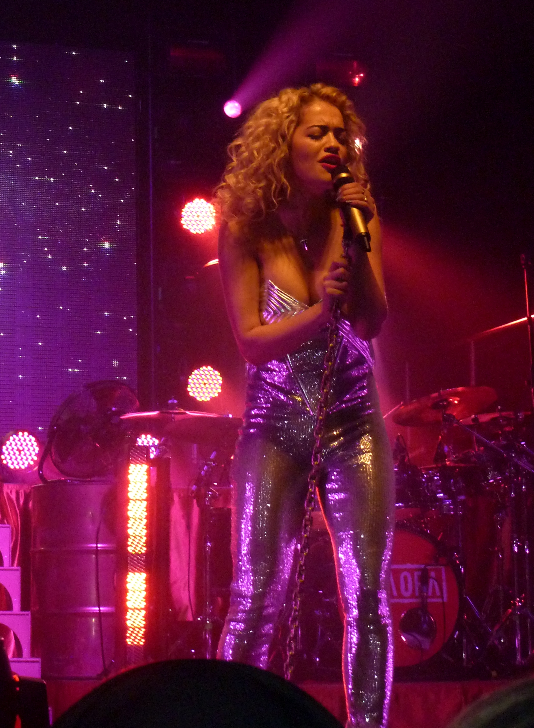 Photo of Rita Ora singing live on her Radioactive Tour at O2 Academy Bournemouth.